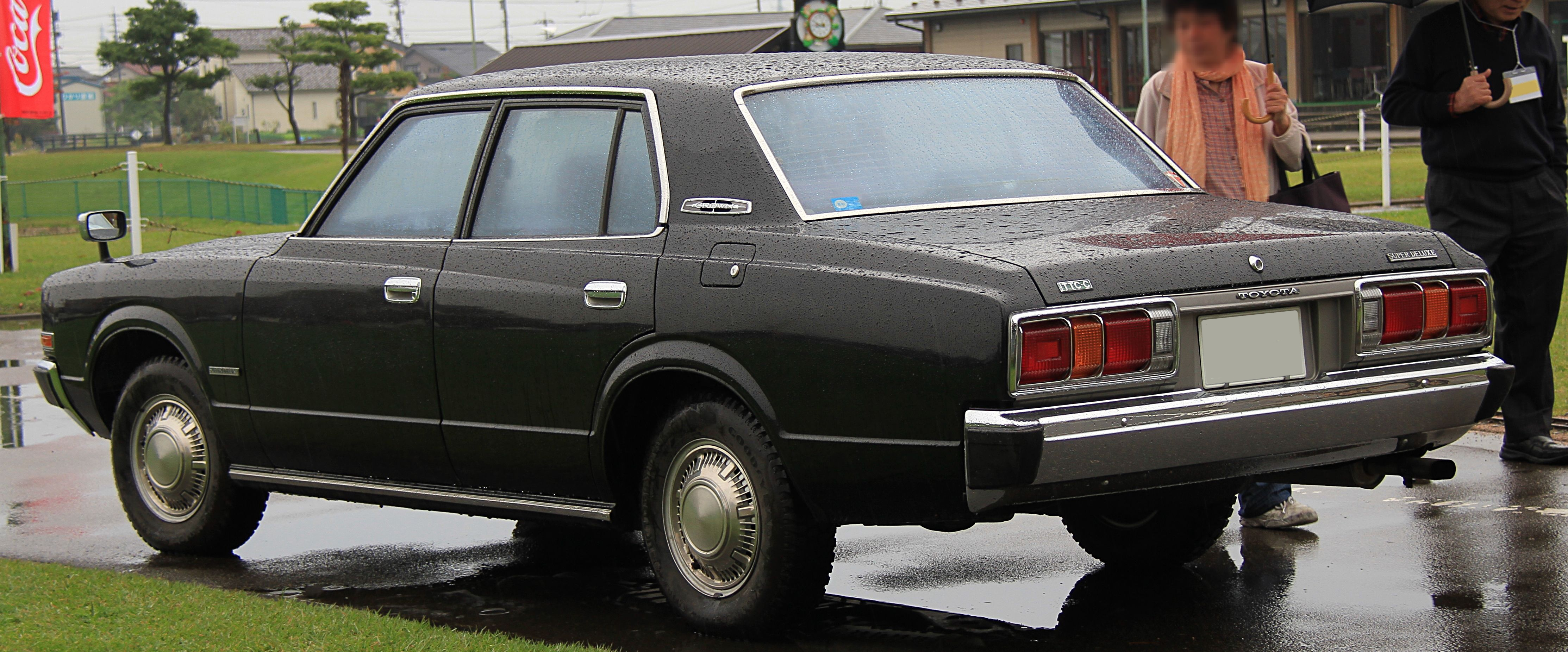 Toyota Crown